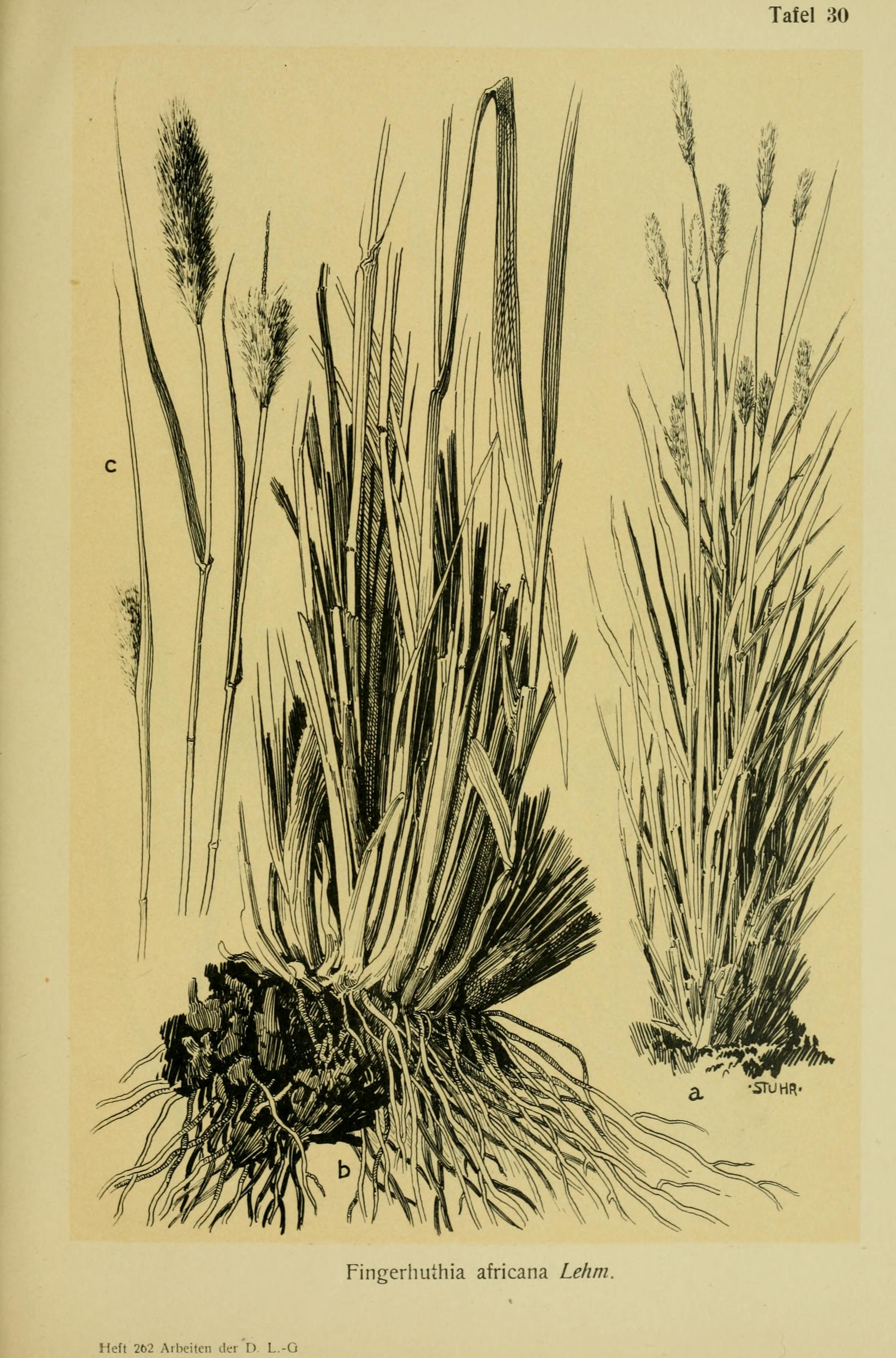 Title: Die Futterpflanzen Deutsch-Südwestafrikas und Analysen von Bodenproben : botanische und chemische Untersuchungen Year: 1914 (1910s) Authors: Heering, W. (Wilhelm), 1876-1916; Grimme, C. (Clemens) Subjects: Forage plants; Soils Publisher: Berlin : Deutsche Landwirtschafts-Gesellschaft Text Appearing Before Image: Tafel 30 Text Appearing After Image: Fingerhuthia africana Lehm. Heft 262 Arbeiten der D L.-G